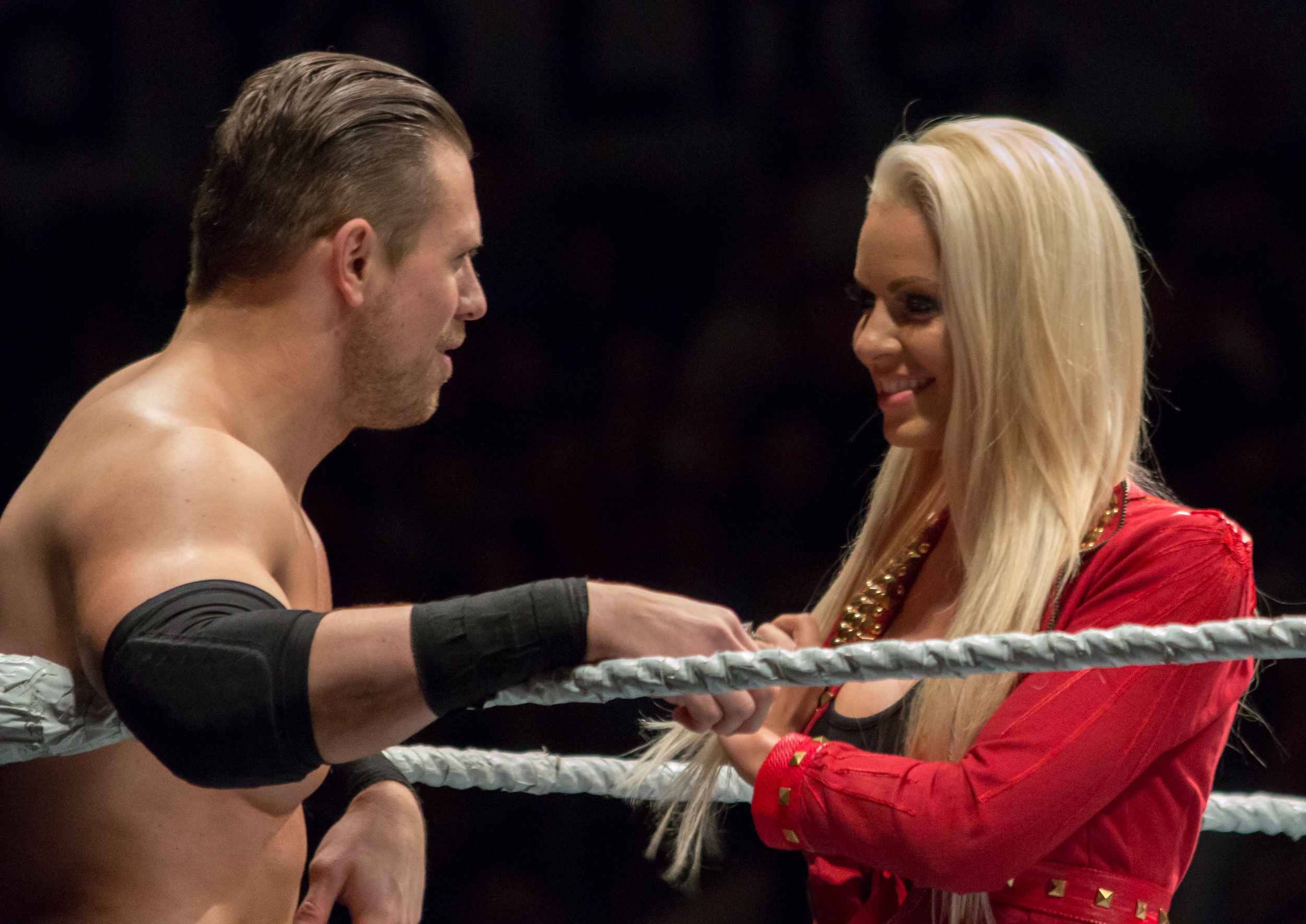 The Miz (left) and Maryse prematch